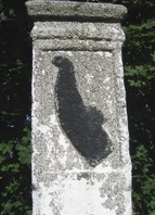 Capital of historic road sign - braking stone - besides old road connecting Vodňany and Protivín, Radčice, part of Vodňany town, Strakonice District, Czech Republic